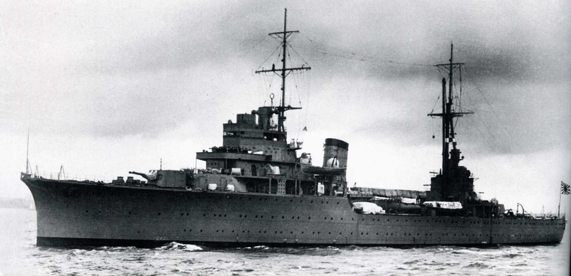 Japanese cruiser Katori commissioning at Yokohama, April 20 1940